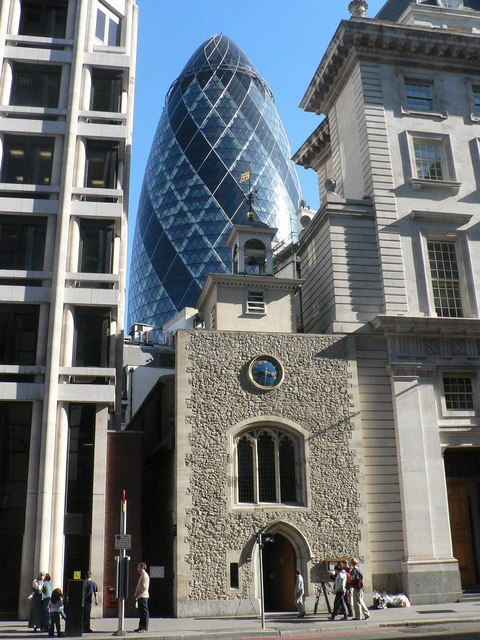 City parish churches: St. Ethelburga Bishopsgate (former) This church was rebuilt in 1390, survived the Great Fire in 1666 and was only modestly damaged in World War II. However, it was all but destroyed in an IRA bomb in 1993. It was restored/rebuilt to its former design, externally at least, and is now a centre for reconciliation and peace.